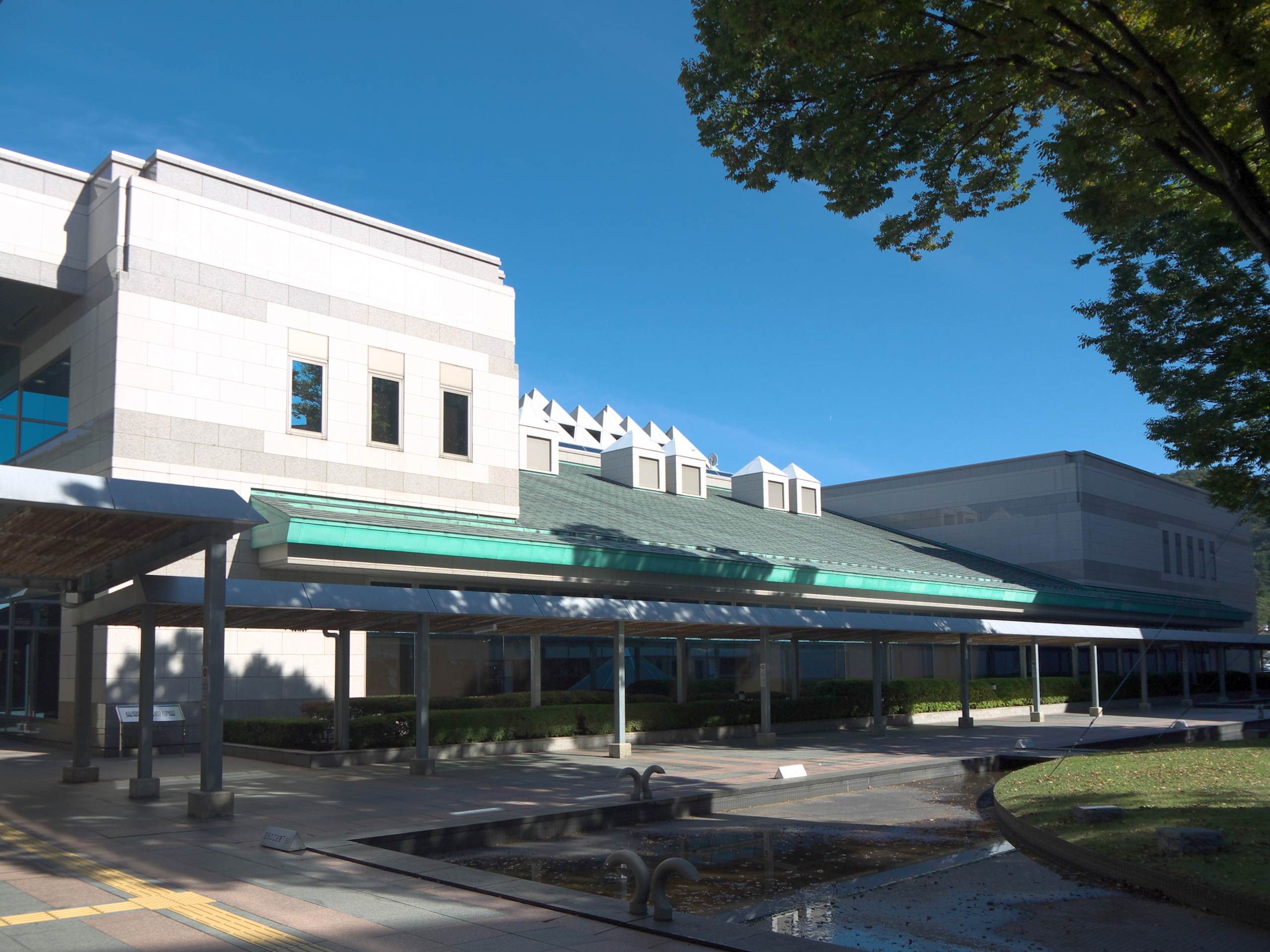 Tottori Prefectural Library, Tottori, Tottori prefecture